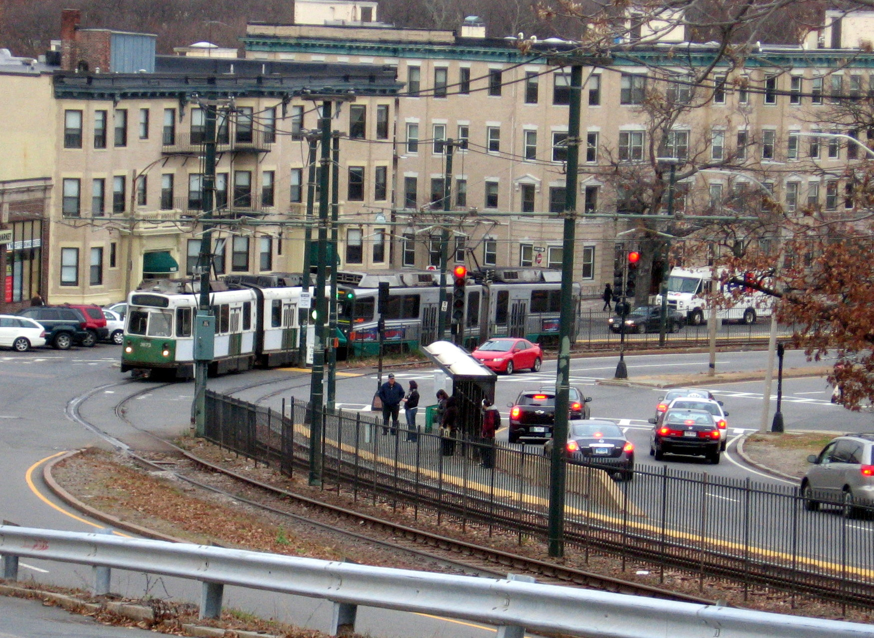 An outbound train leaves Warren Street stop